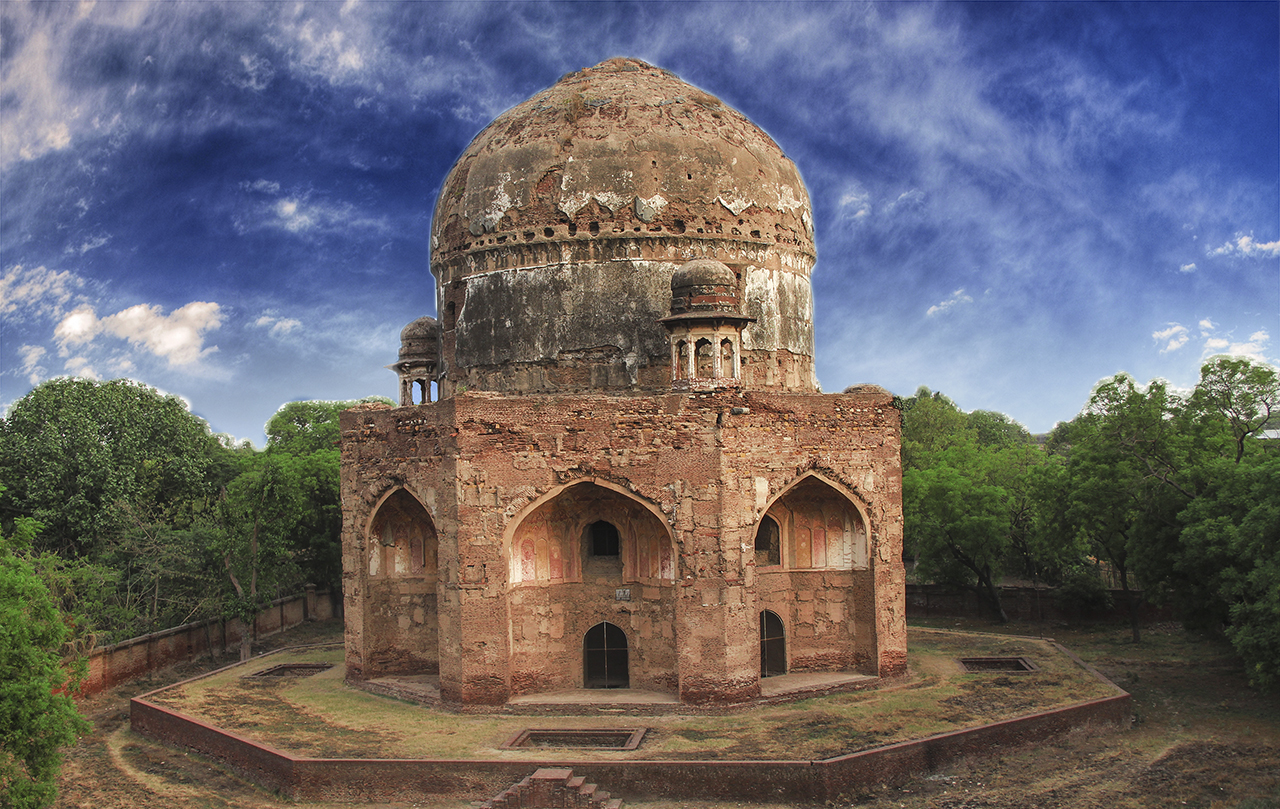 Ali Mardan Khan's Tomb and Gateway This is a photo of a monument in Pakistan identified as the PB-41